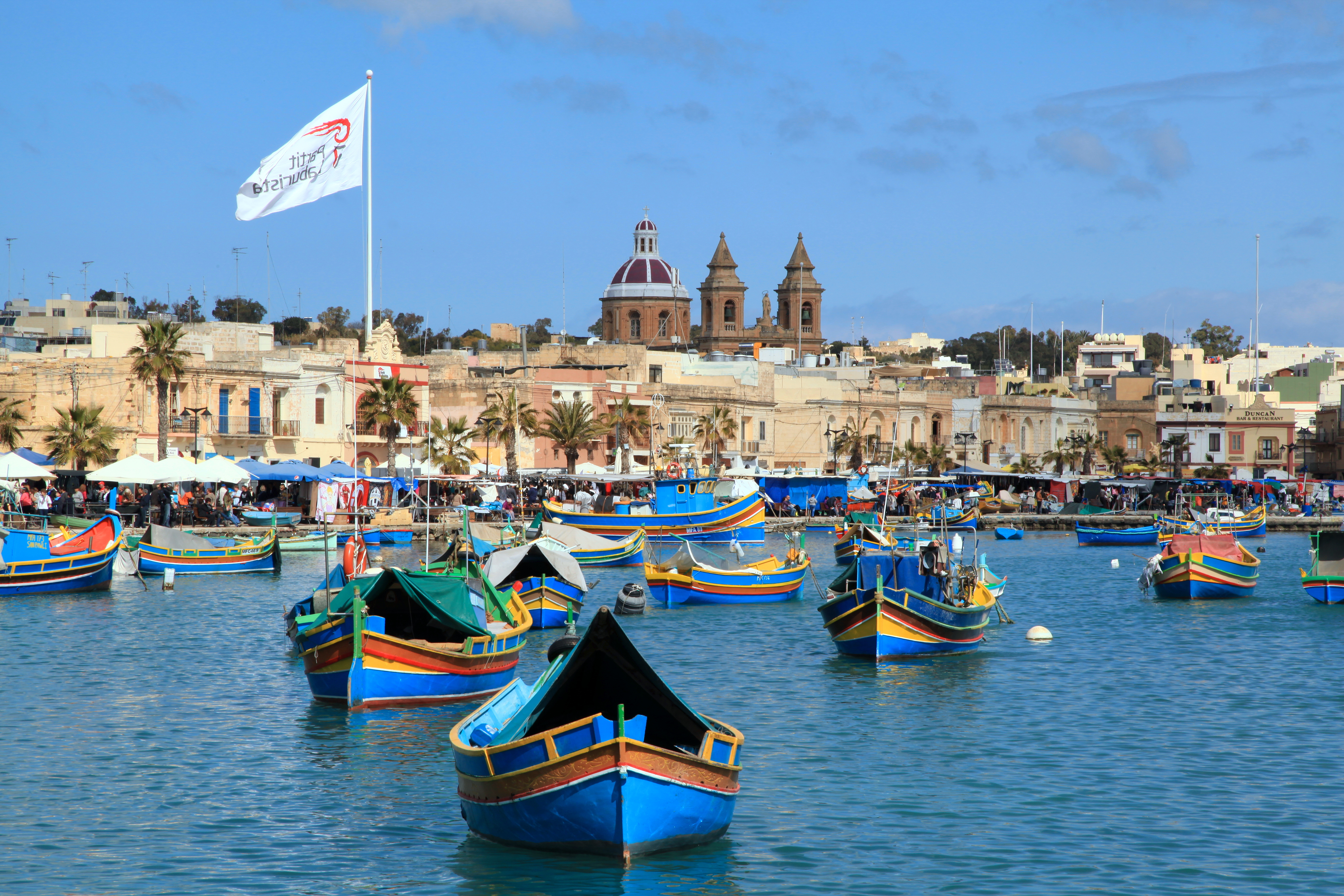 Marsaxlokk Harbour, Xatt is-Sajjieda in Marsaxlokk, Malta